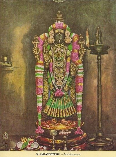 Image of Goddess Akilandeswari at THIRUVANAIKAVAL Temple near Tiruchirappali.